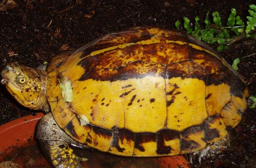 Northern Vietnamese box turtle